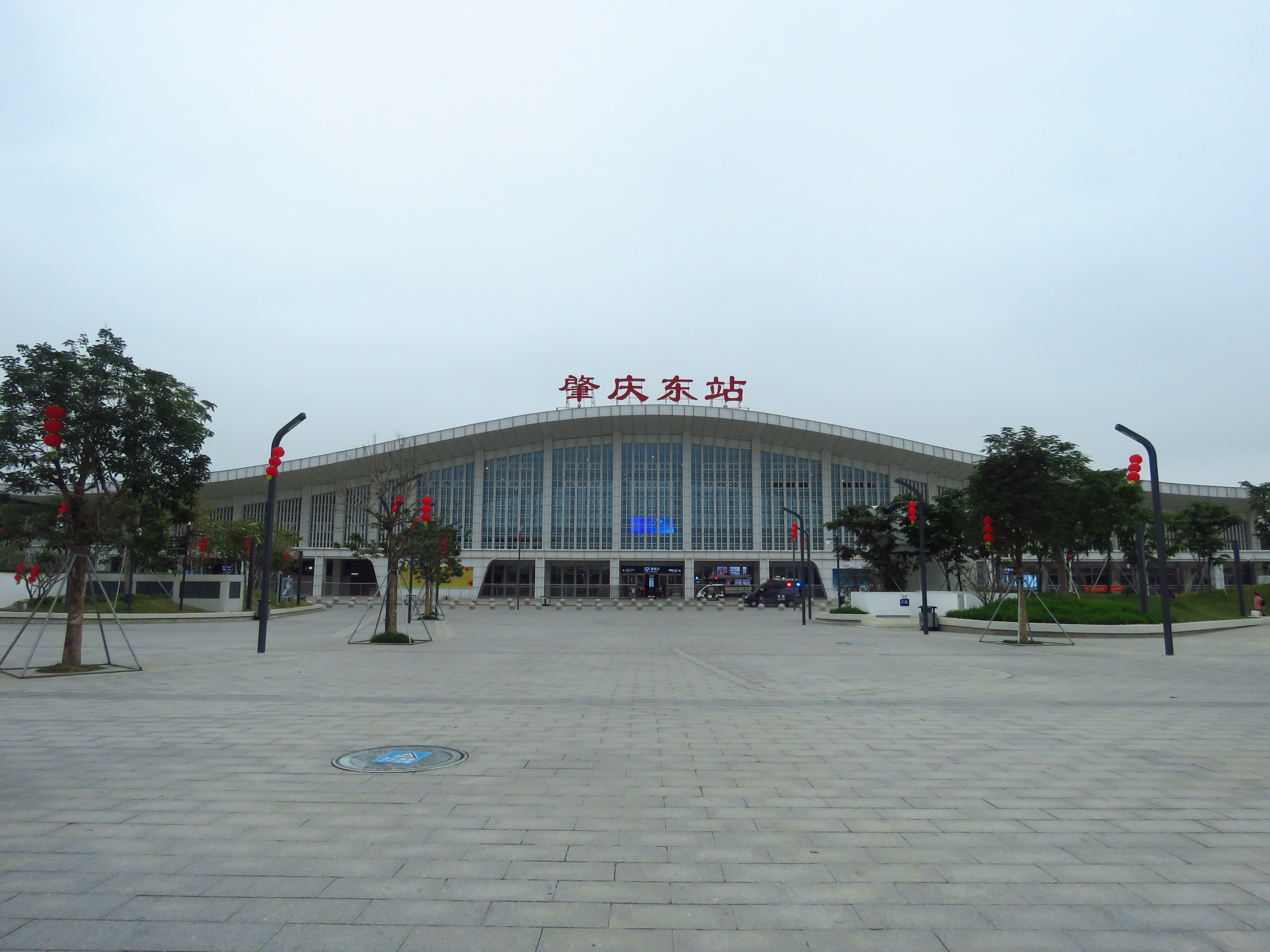 China National Railway Zhaoqingdong Station building